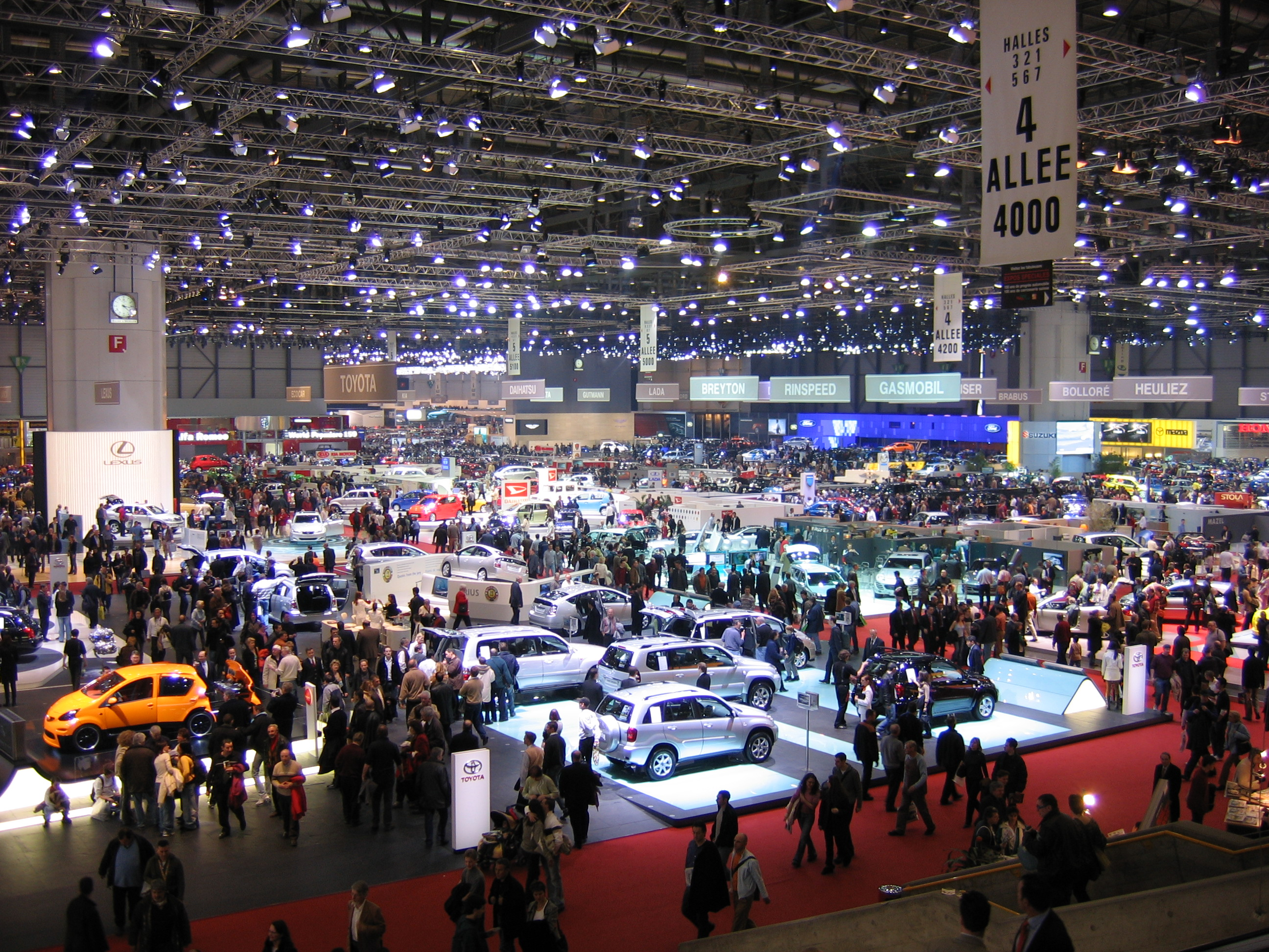 Geneva Motor Show 2005